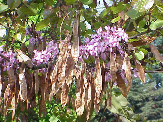 Species: Cercis siliquastrum Family: Caesalpiniaceae Image No. 3